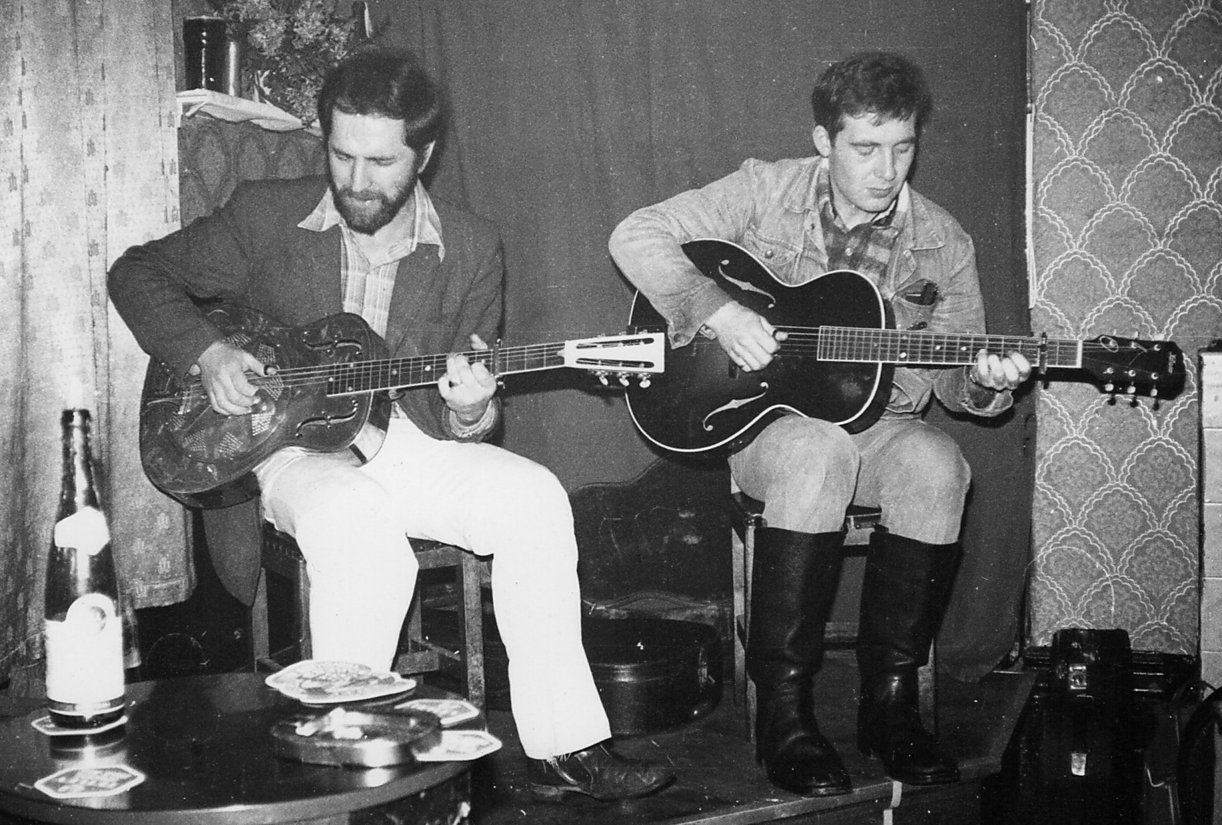 Steve Phillips and Brendan Croker, musicians, in Leeds, 1978 (photograph by Tony Rees)